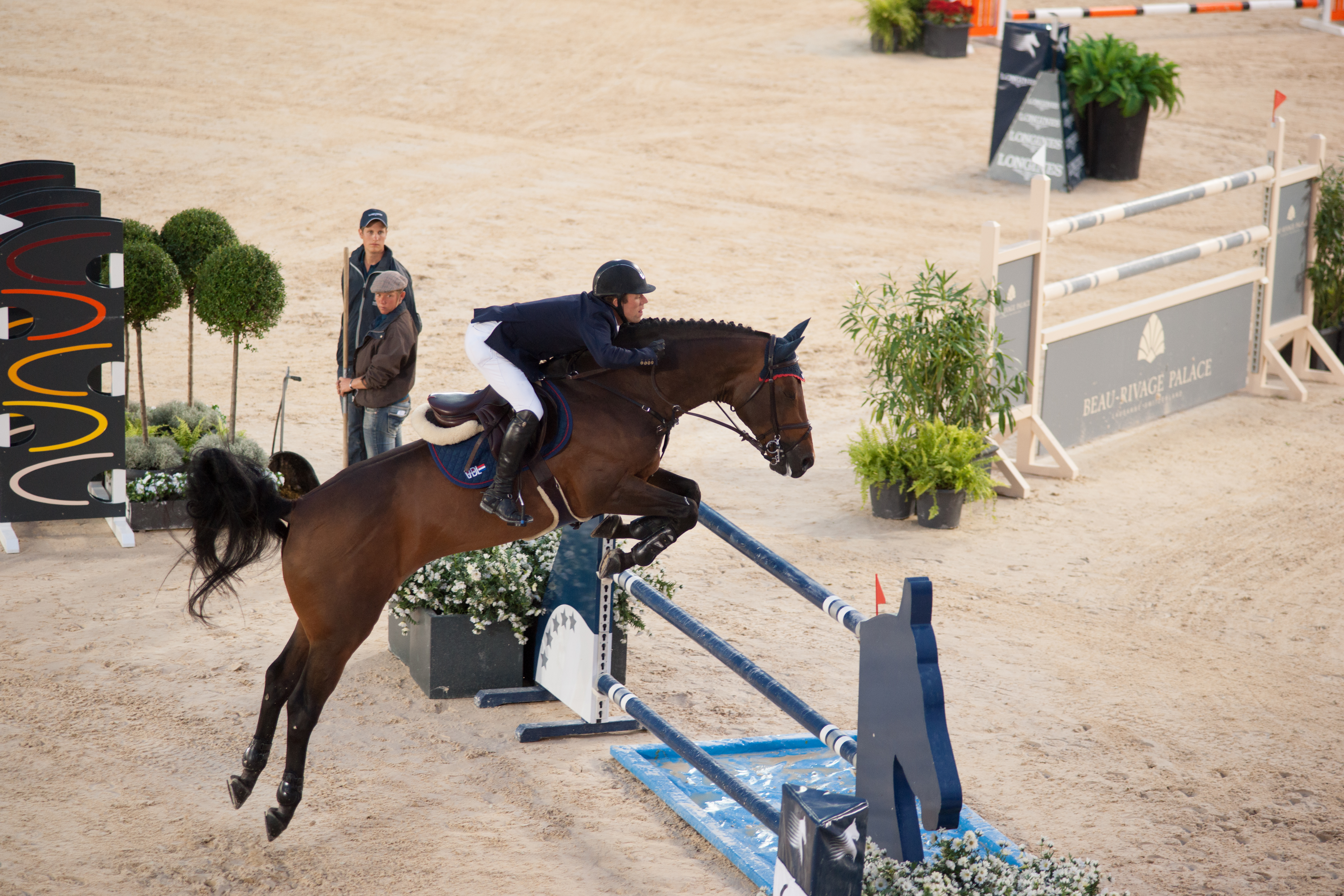 The making of this document was supported by Wikimedia CH. (Submit your project!) For all the files concerned, please see the category Supported by Wikimedia CH. 2013 Longines Global Champions Tour